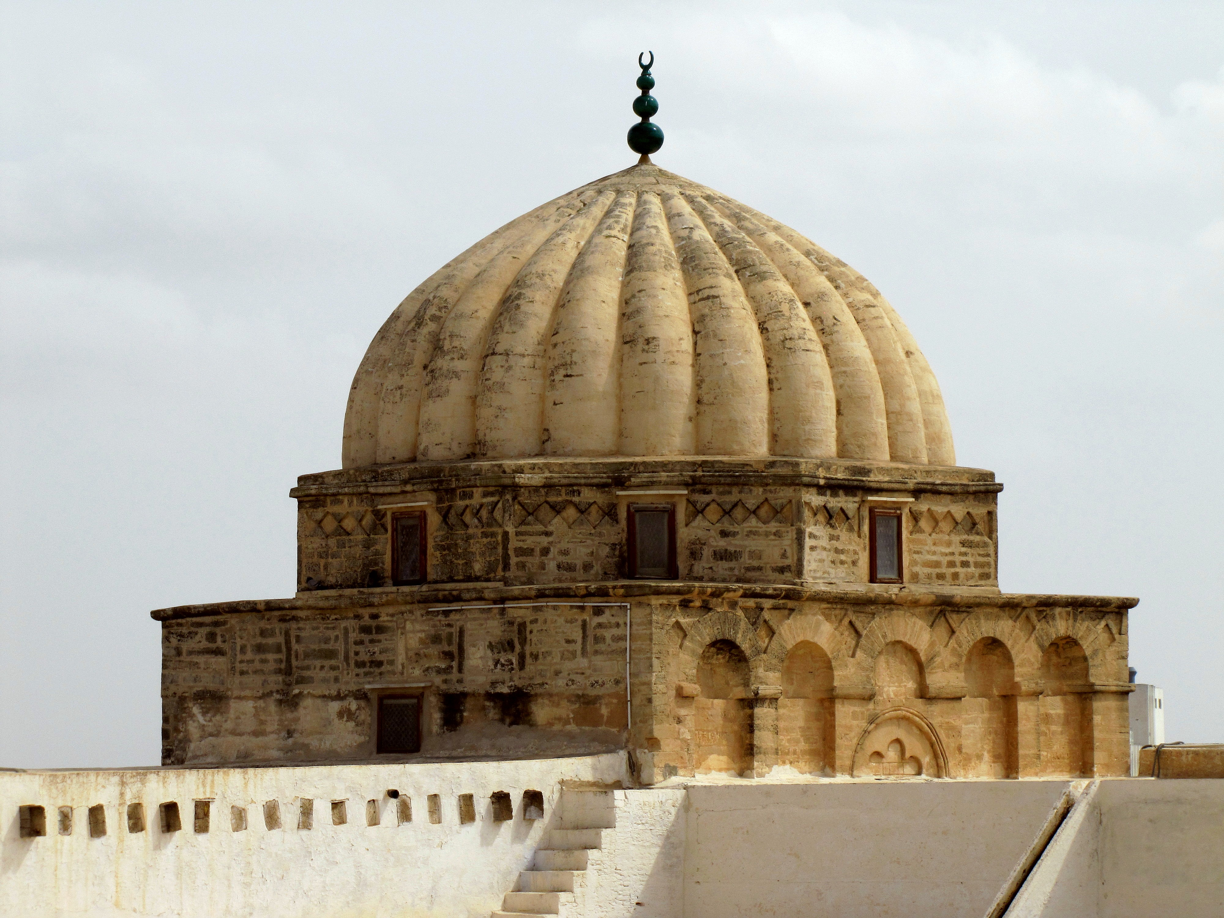 Exterior view of the mihrab dome in the Great Mosque of Kairouan, Tunisia.